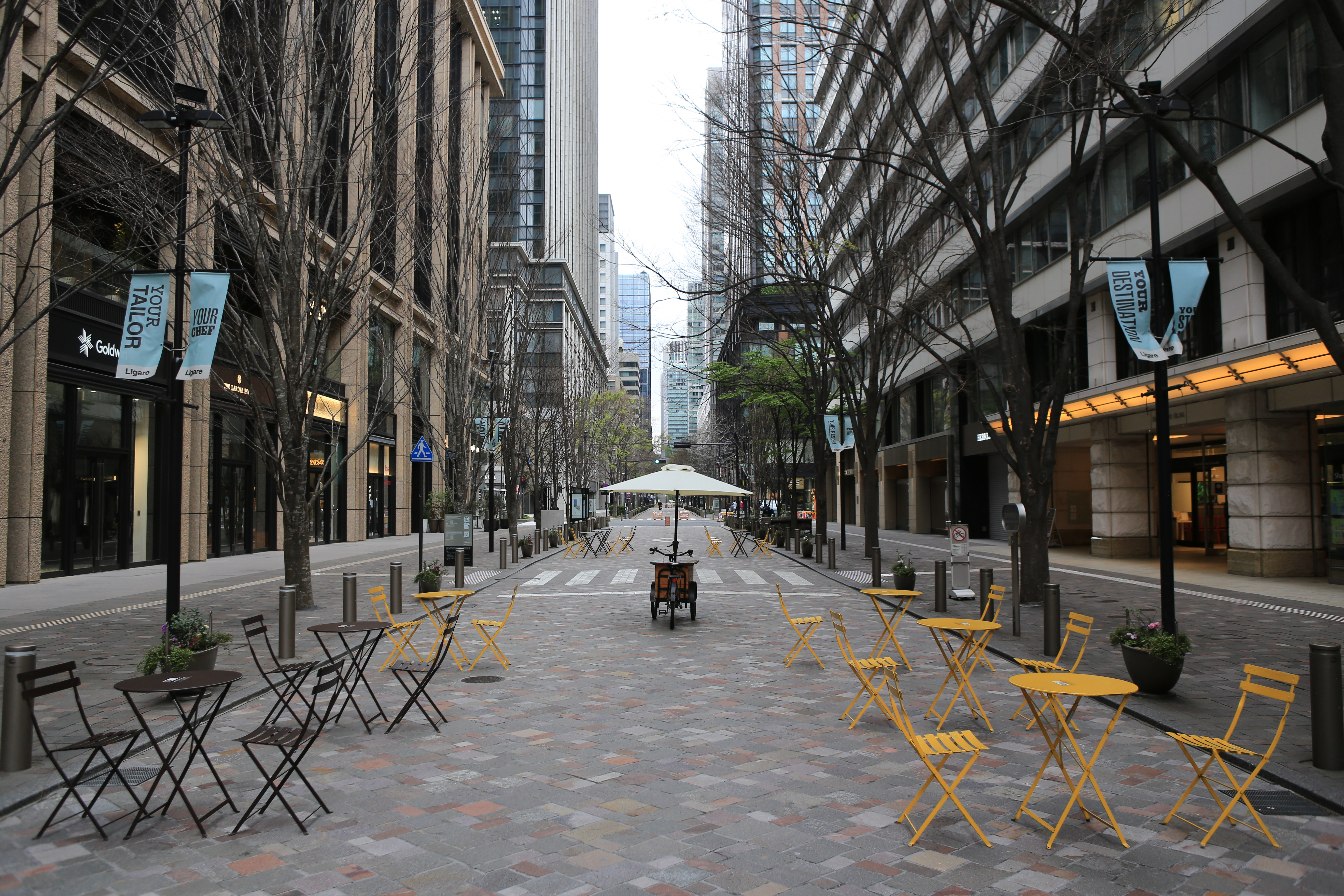 The Marunouchi Nakadōri Street in Chiyoda city, Tokyo, Japan. Empty as a result of the request for self-control to go out decreed in Tokyo because of the Coronavirus of 2020